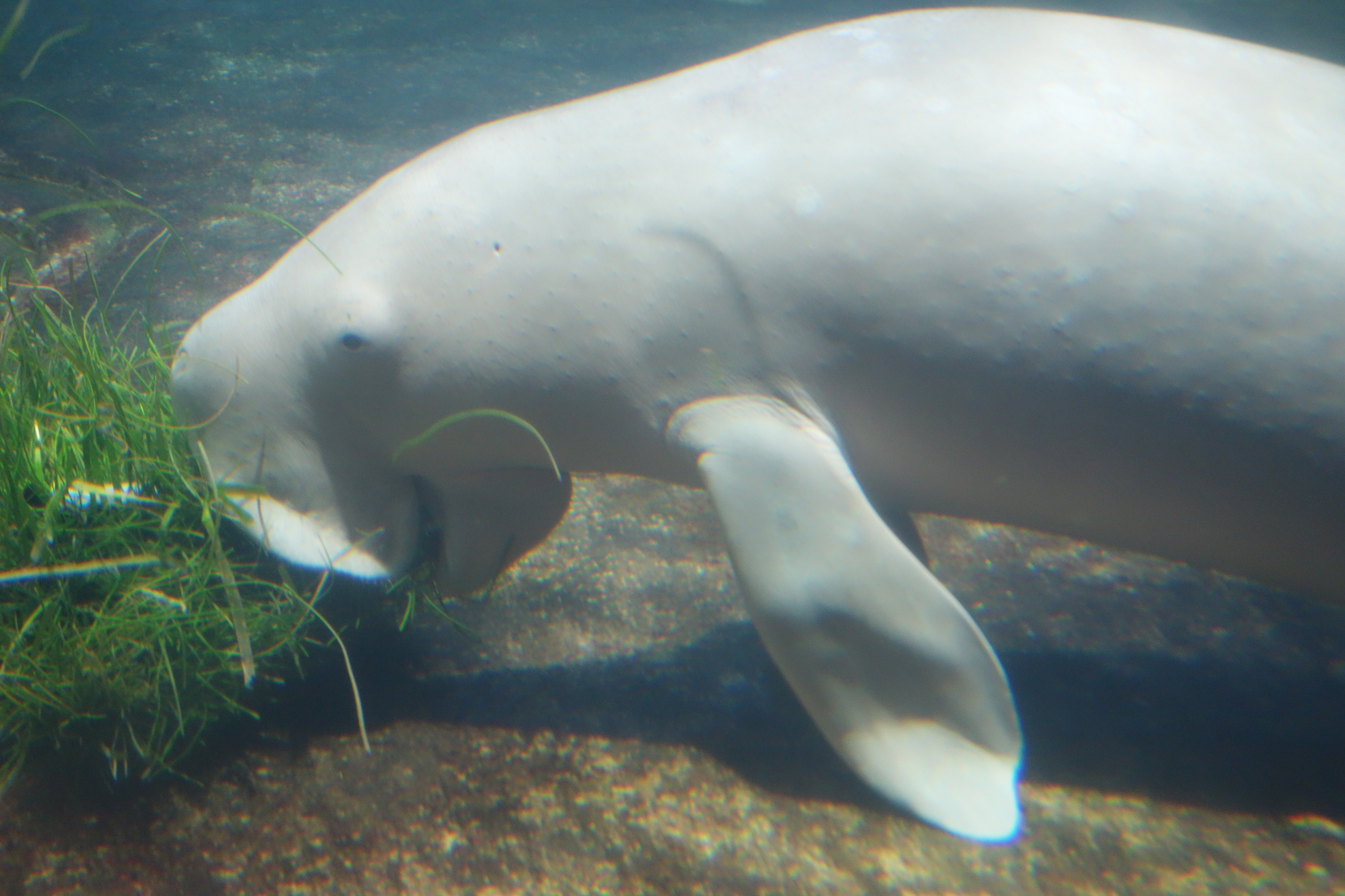 Dugong in Jakarta oceanarium